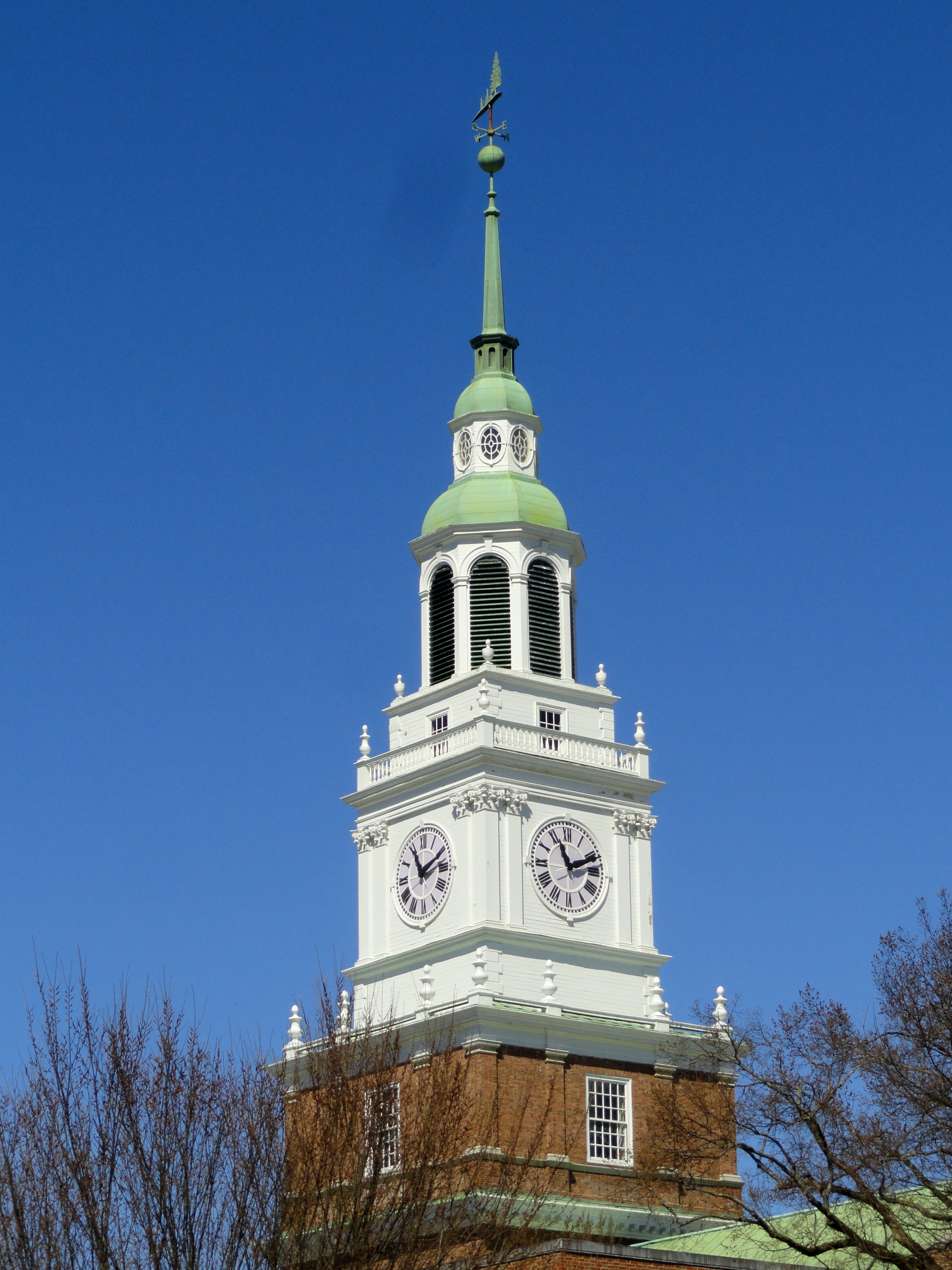 Baker Memorial Library, Dartmouth College, Hanover, New Hampshire, USA.